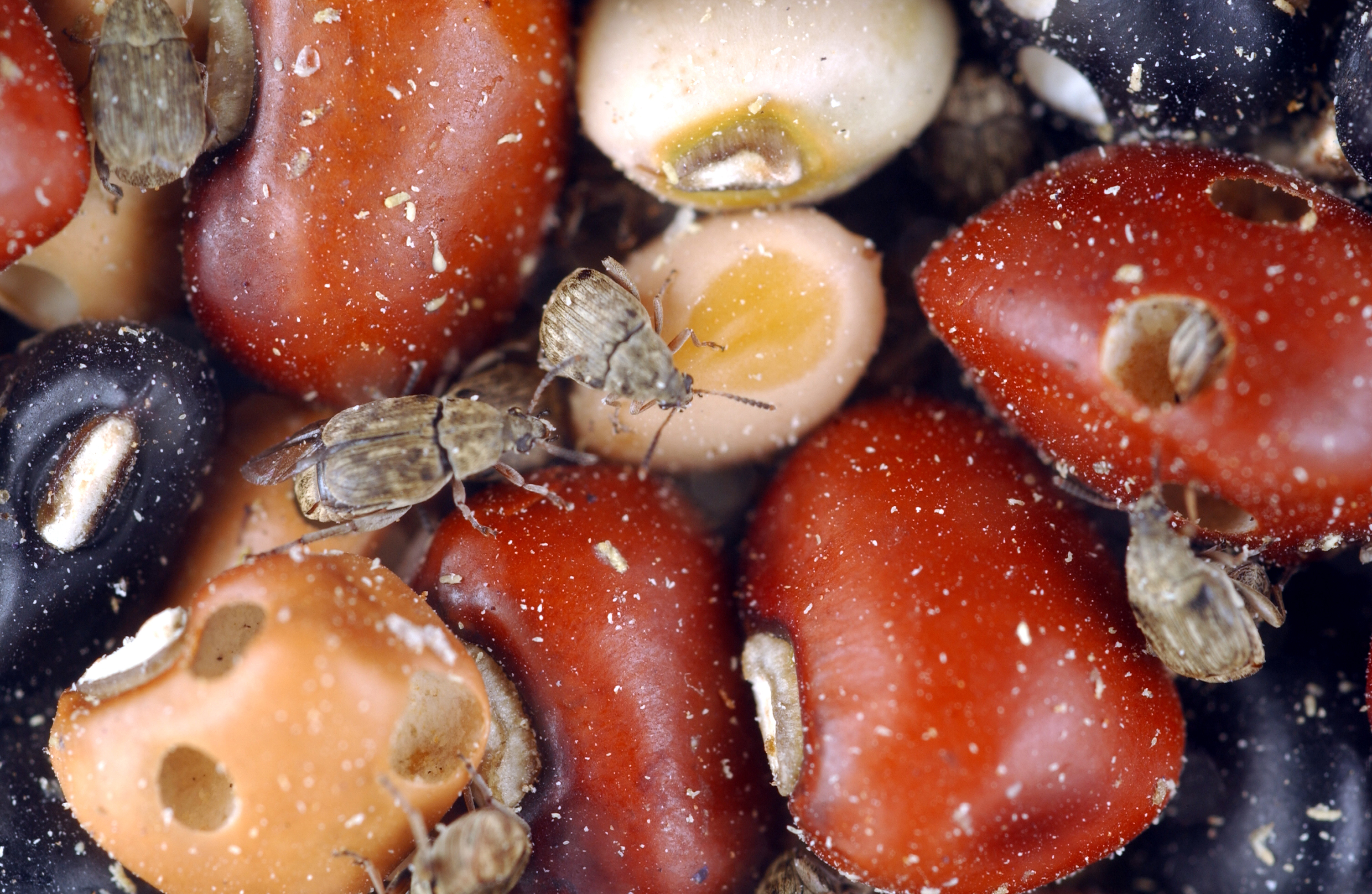 Cowpeas are a staple food and an important source of protein for over200 million people in sub-Saharan Africa. They are regarded as drought-tolerant and can cope with poor soils, making them highly adapted to the region.